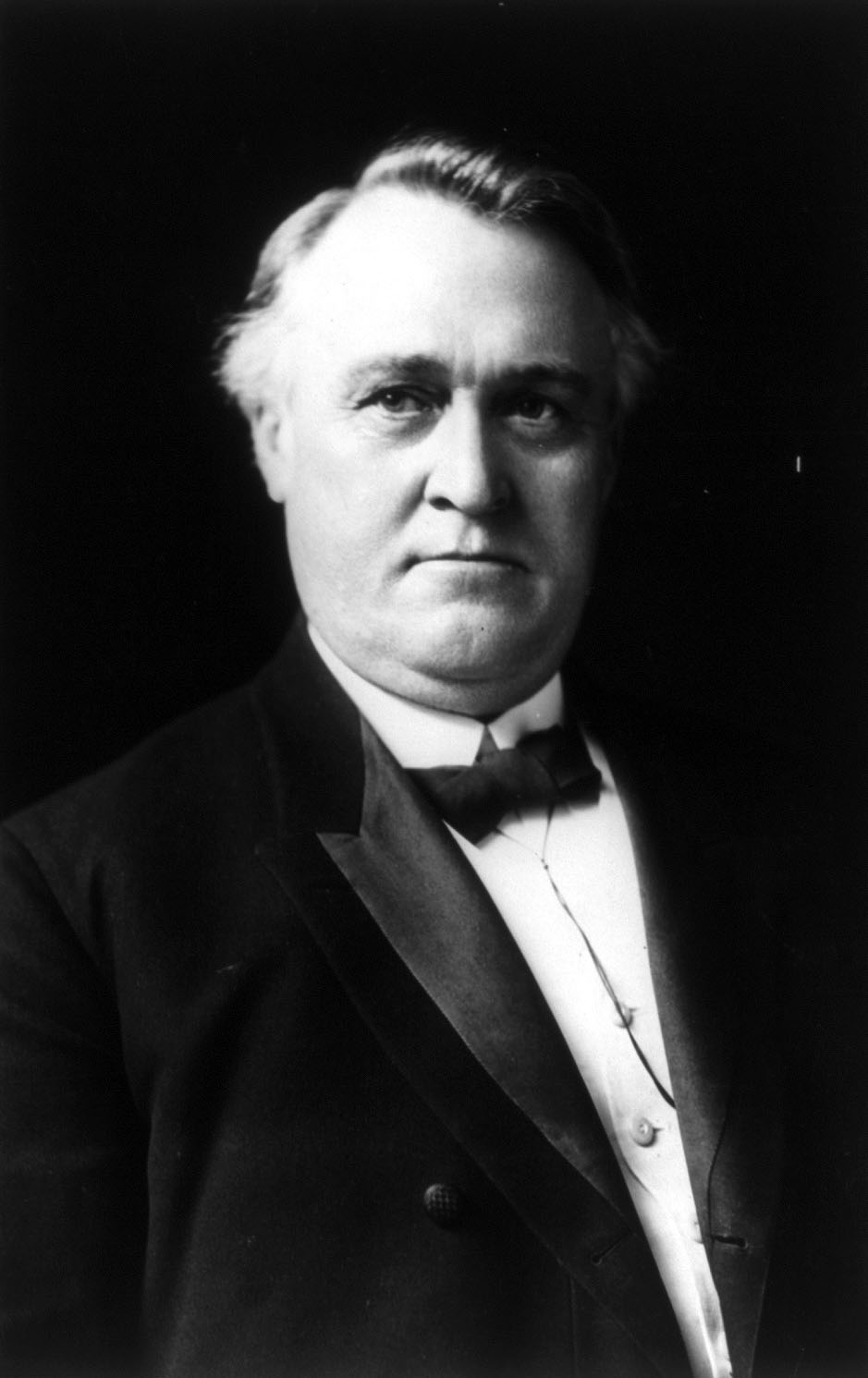 Senator Lee Slater Overman of North Carolina